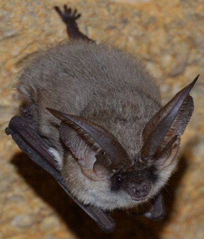 Grey long-eared bat in Odesa catacombs